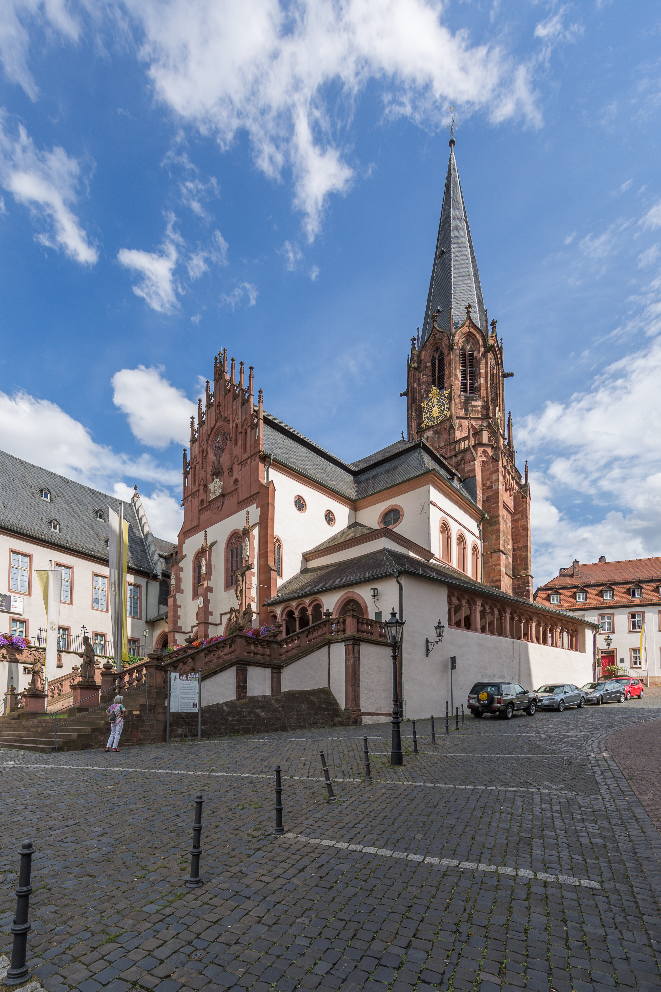 St. Peter und Alexander, Aschaffenburg